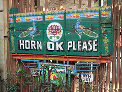 Well, this picture is taken by me to paste on topic "Horn ok Please"